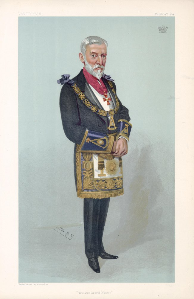 Caricature of William Amherst, 3rd Earl Amherst. Caption read "The Pro Grand Master".